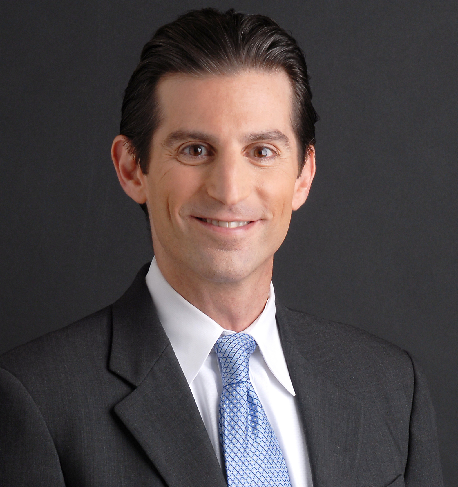 Official high-res head shot photo of David Hoffman.